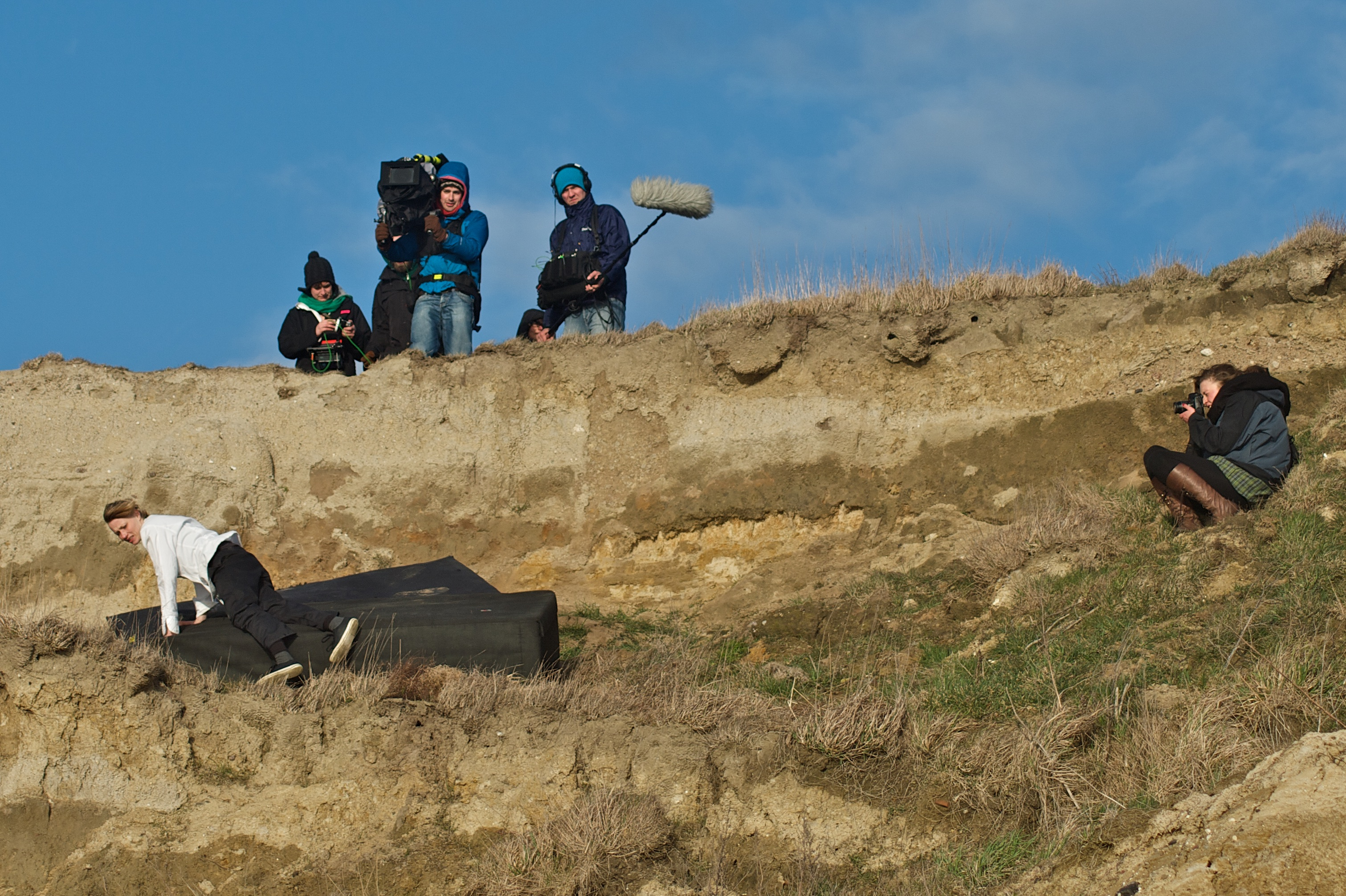 Shooting of the movie "Love Steaks" (German title) at the bluff near Ahrenshoop, Mecklenburg-West Pomerania, Germany. In white jacket the leading actress Lana Cooper.